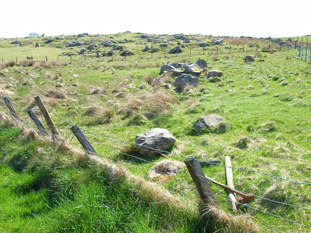 A very rocky field near The May above Mochrum Loch